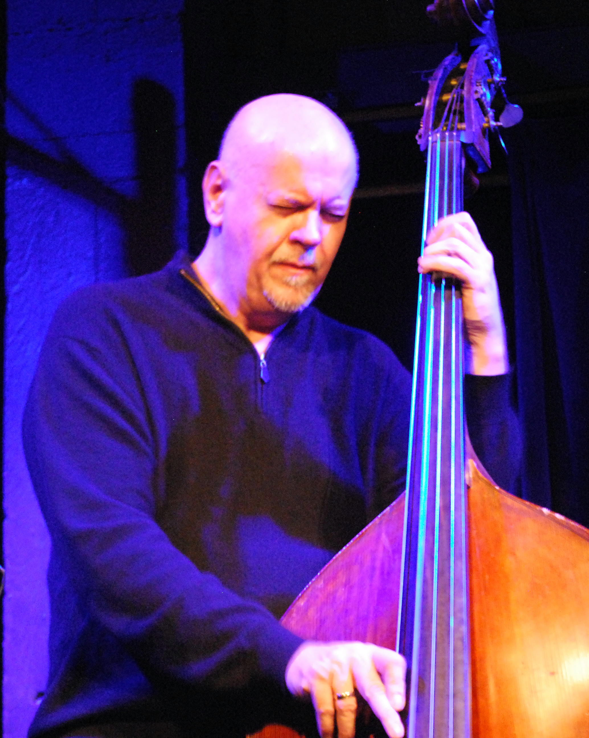 Jay Anderson, concert with Adam Nussbaum, Oz Noy, Seamus Blake, Innsbruck 2011